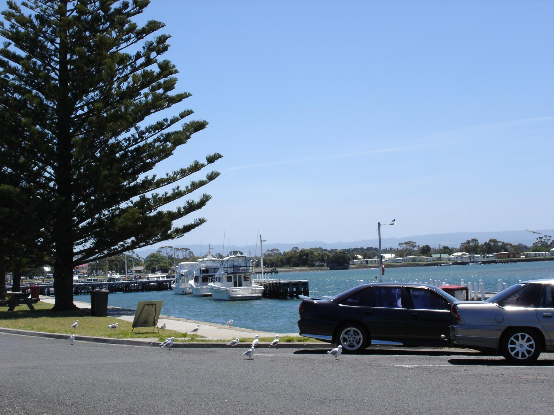 Port Albert - Victoria, Australia